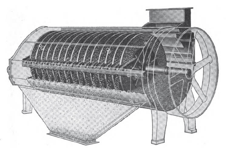 Overview of a disc grain separator (trieur)